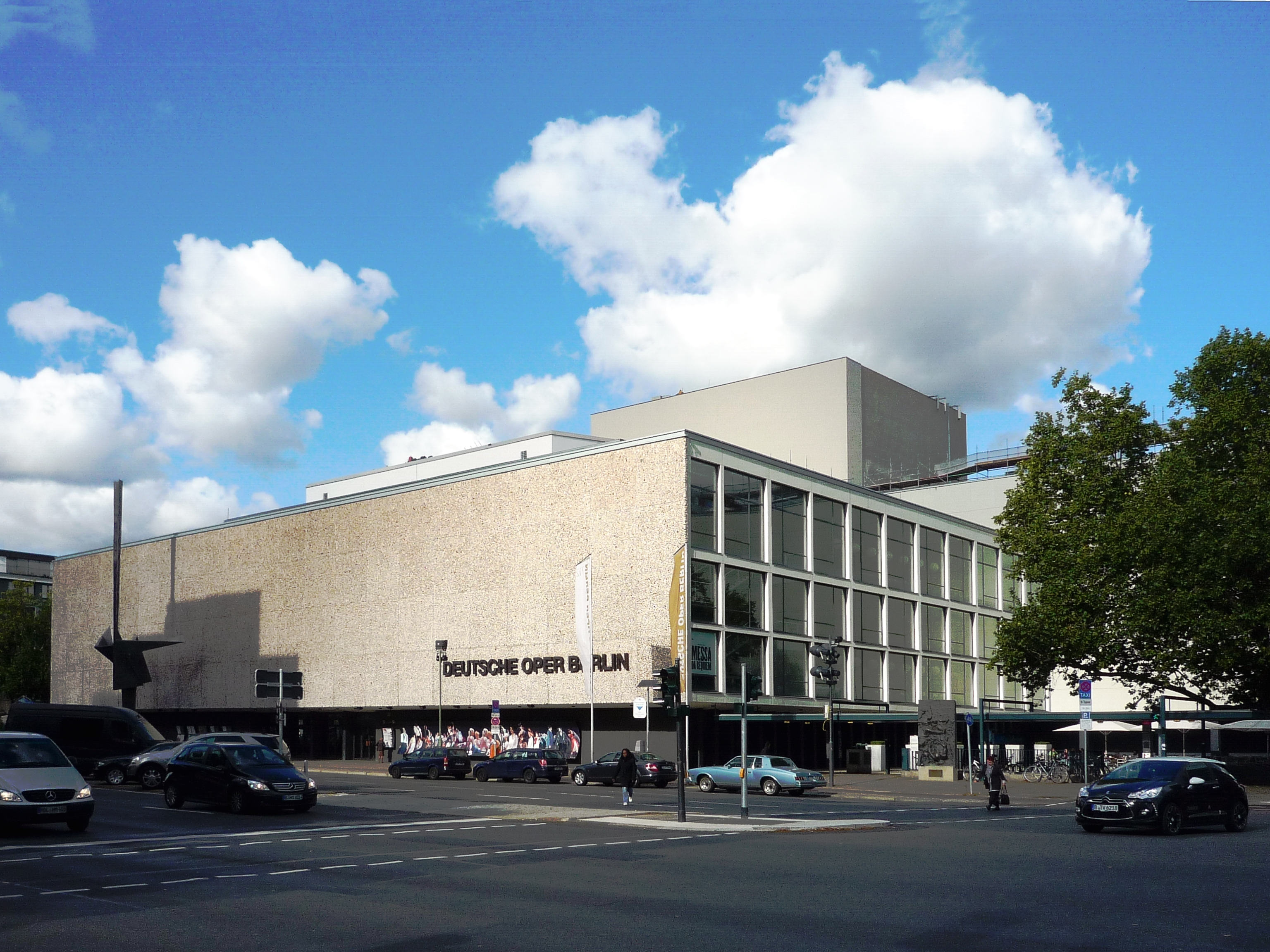 The Deutsche Oper Berlin (German Opera Berlin). View from Southeast.